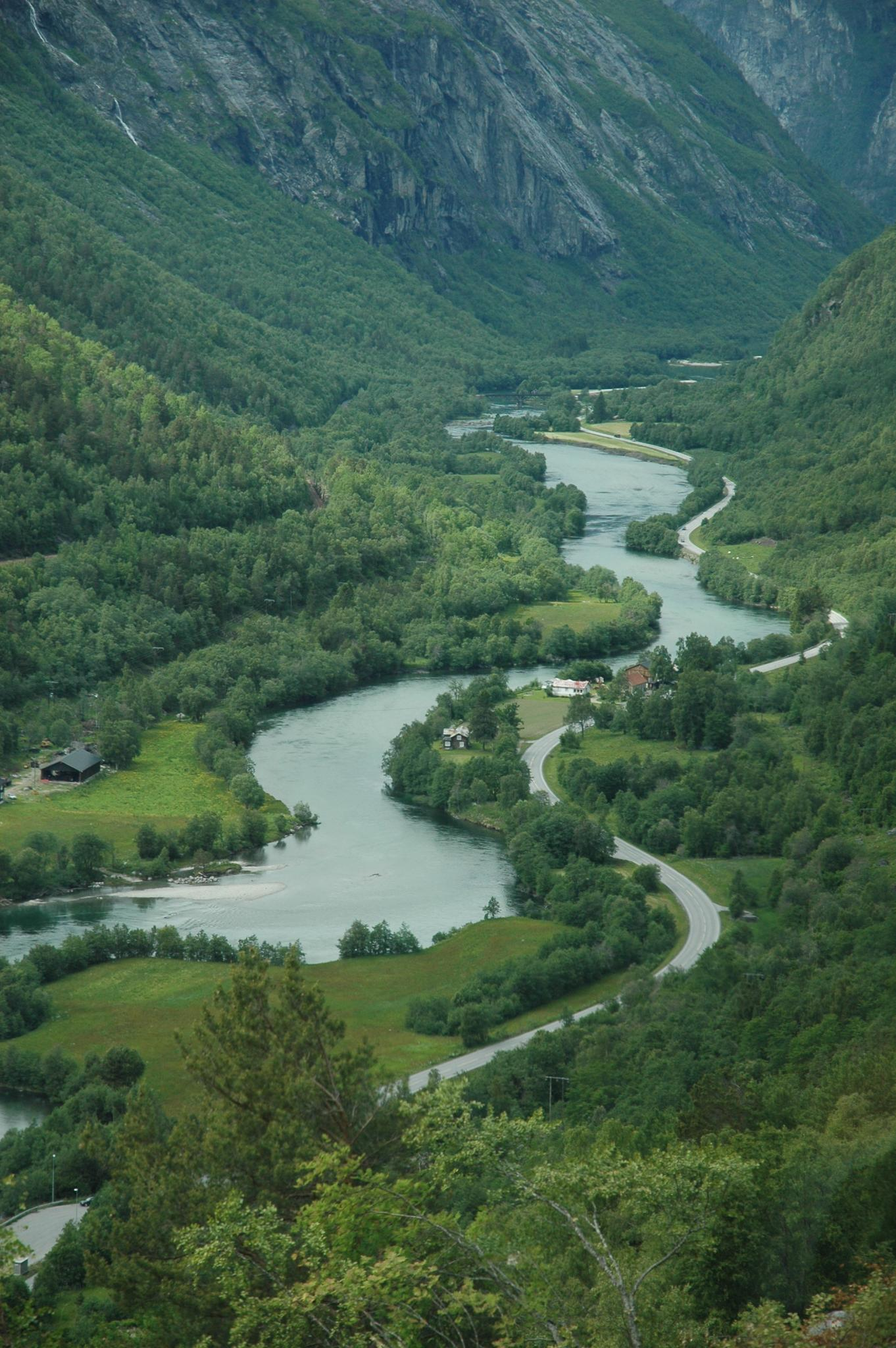 Landscape between Åndalsnes and Bjorli, showing Rauma river in upper Romsdal valley between Verma and Foss